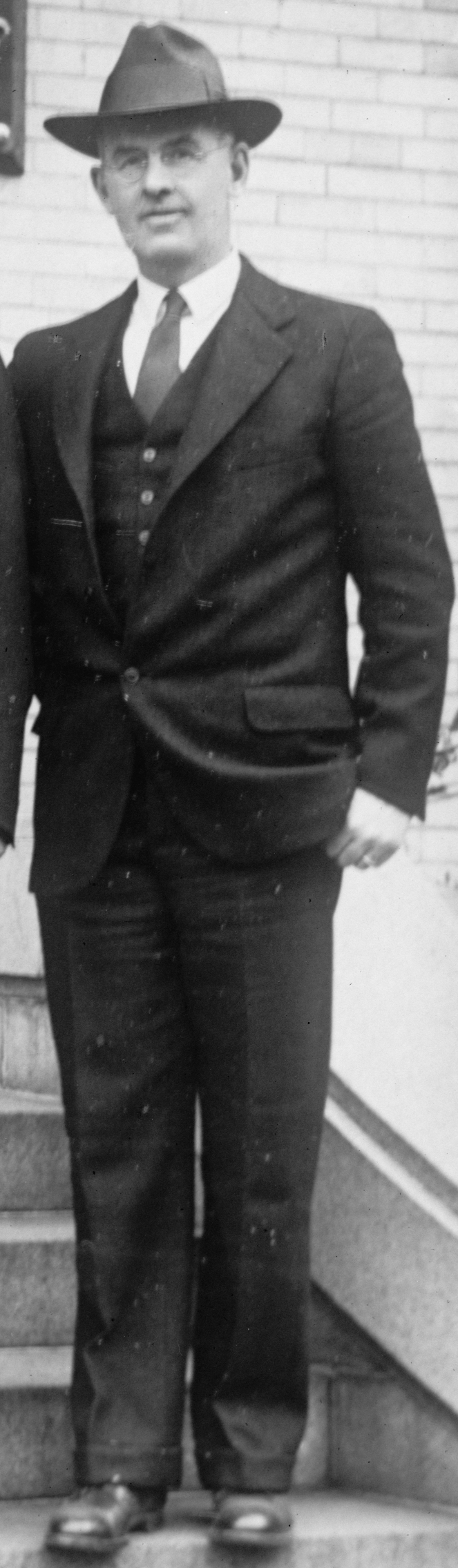 "Planning motor car expedition across Asia. Georges-Marie Haardt of Paris will head a scientific party which will start shortly on an expedition which will cover 13,500 miles in Asia, including previously unexplored sections. The expedition will travel in special caterpillar-drive equipped motor cars. Haardt came to Washington to complete arrangements for the National Geographic Society to participate in the project. In the photograph, Maynard Owen Williams [1888-1963], the Society's correspondent who will accompany the expedition, 12/3/30."About this expedition, see Croisière jaune.